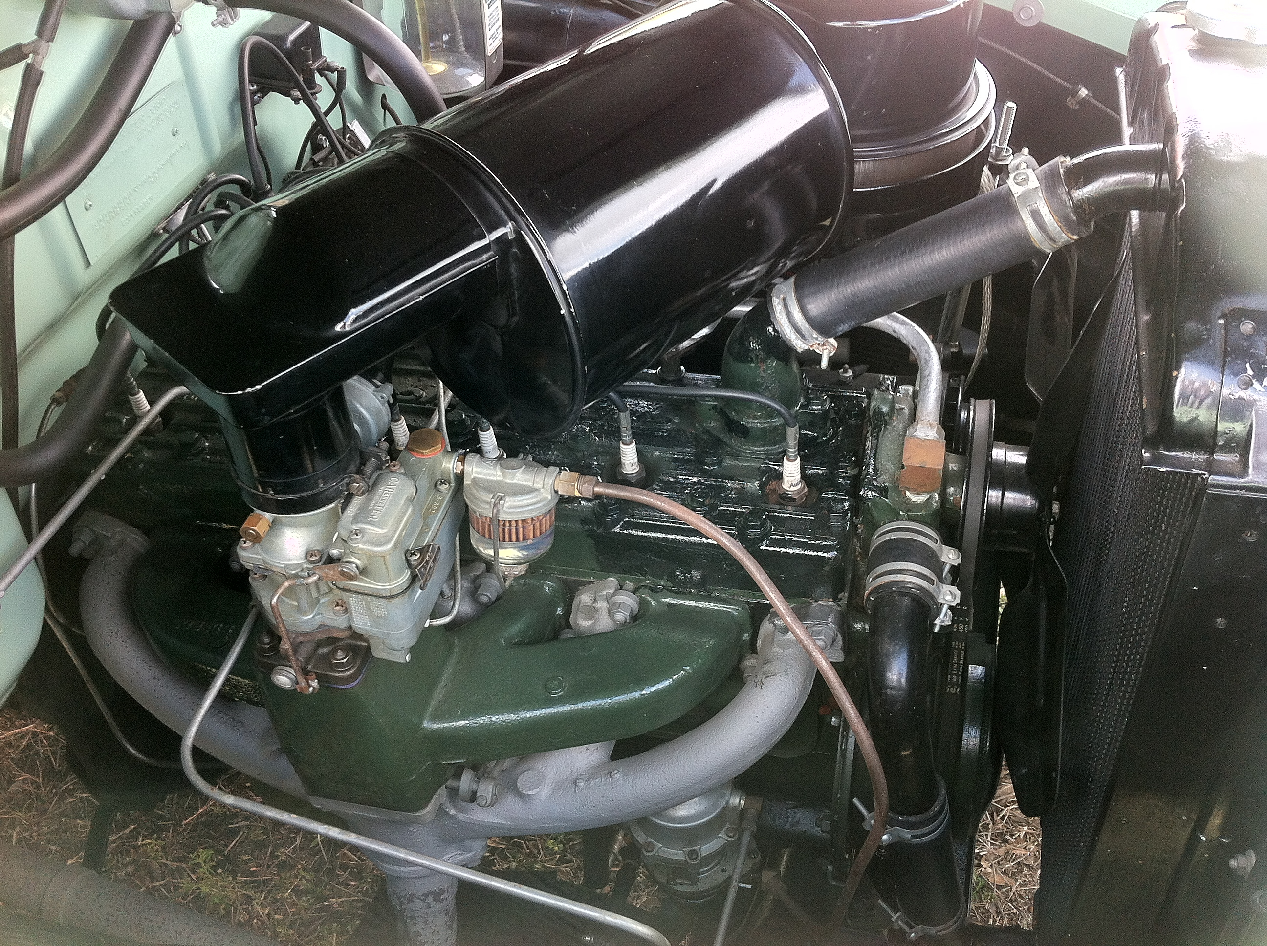 1951 Henry J automobile built by the Kaiser-Frazer Corporation. This is a compact-sized two-door sedan finished in green and powered by a 161 cu in (2.6 L) flat-head six-cylinder engine. Picture taken at the 2013 Antique Automobile Club of America (AACA) meet in Lakeland, Florida, USA.